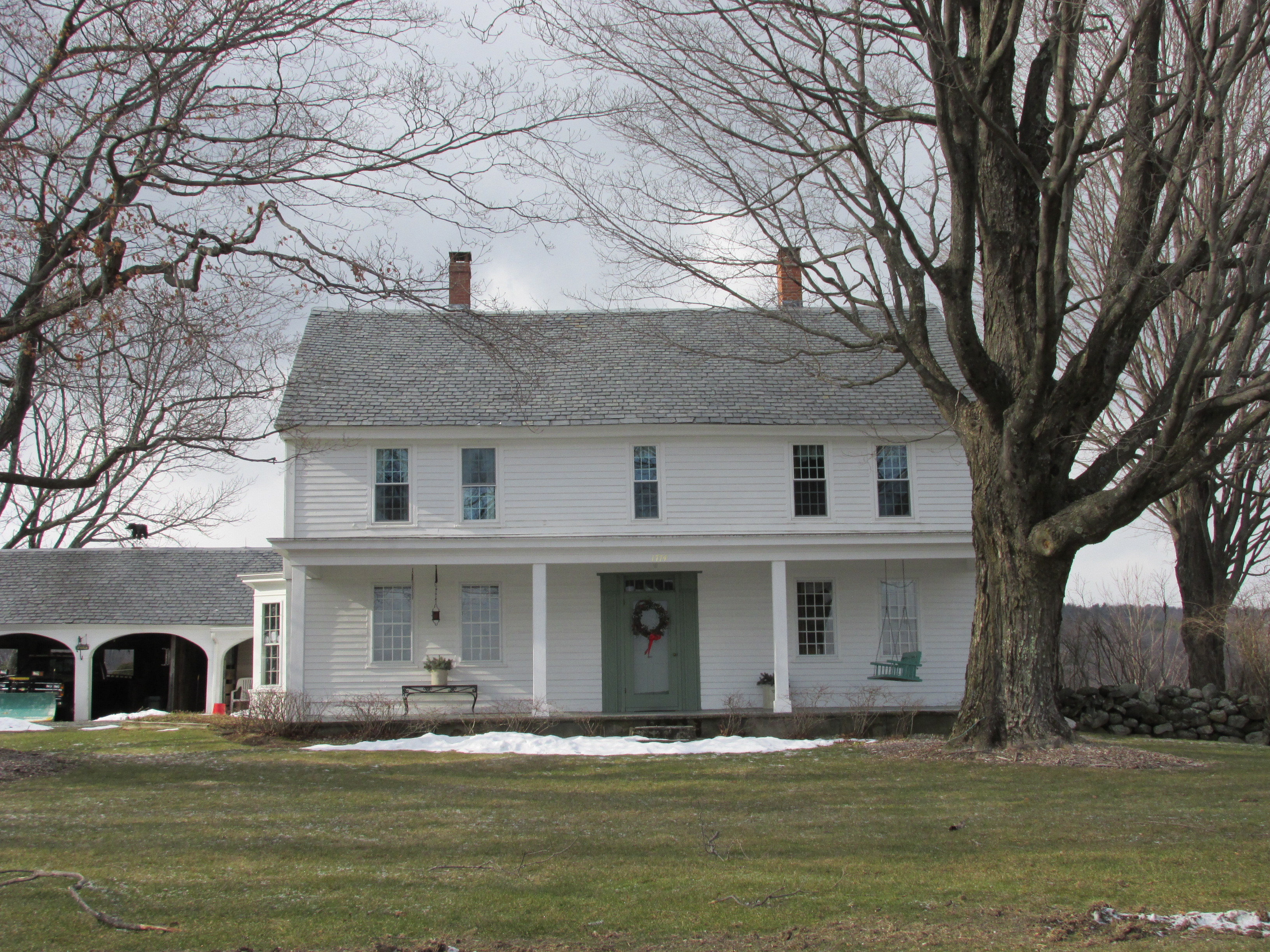 Parson Hubbard House, Shelburne Massachusetts - 1774